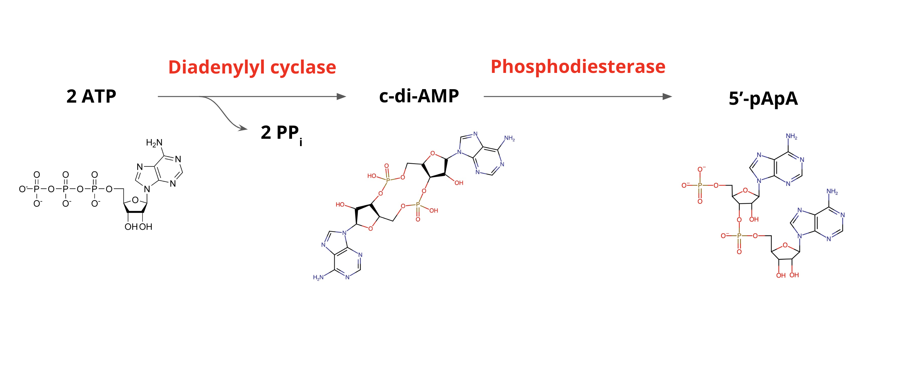 2 molecules of ATP condense to form c-di-AMP, which later degrades to 5'-pApA